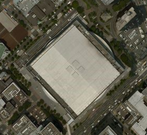 Yokohama Arena